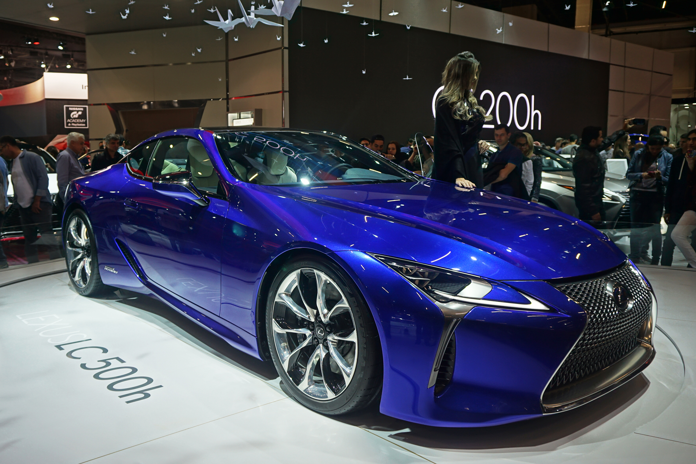 Lexus LC 500h hybrid car exhibited at the Salão Internacional do Automóvel 2016 São Paulo, Brazil.